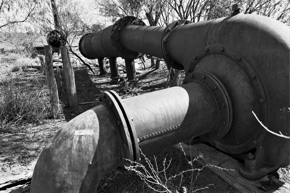 Beaconsfield Station Sheep Wash (former) - water pipes